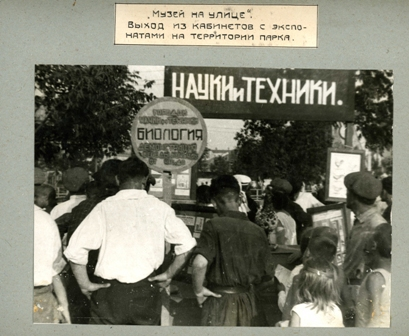 Museum on Moscow streets